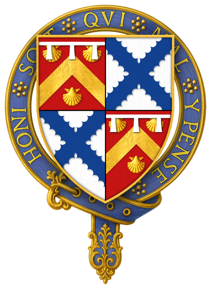 Sir William Chamberlaine, KG HOPE, W. H. St. John, The Stall Plates of the Knights of the Order of the Garter 1348 – 1485: A Series of Ninety Full-Sized Coloured Facsimiles with Descriptive Notes and Historical Introductions, Westminster: Archibald Constable and Company LTD, 1901. “ Plate LXV - Sir William Chamberlain, K.G. 1461-1463… the arms, which are quarterly: 1 and 4, gules a chevron and three escallops gold with a label silver (for Chamberlain); 2 and 3, silver a saltire engrailed azure (for Tolthorpe?)... ” Sir William's stall plate remains intact within the twenty-third stall, on the Sovereign's side of the chapel.